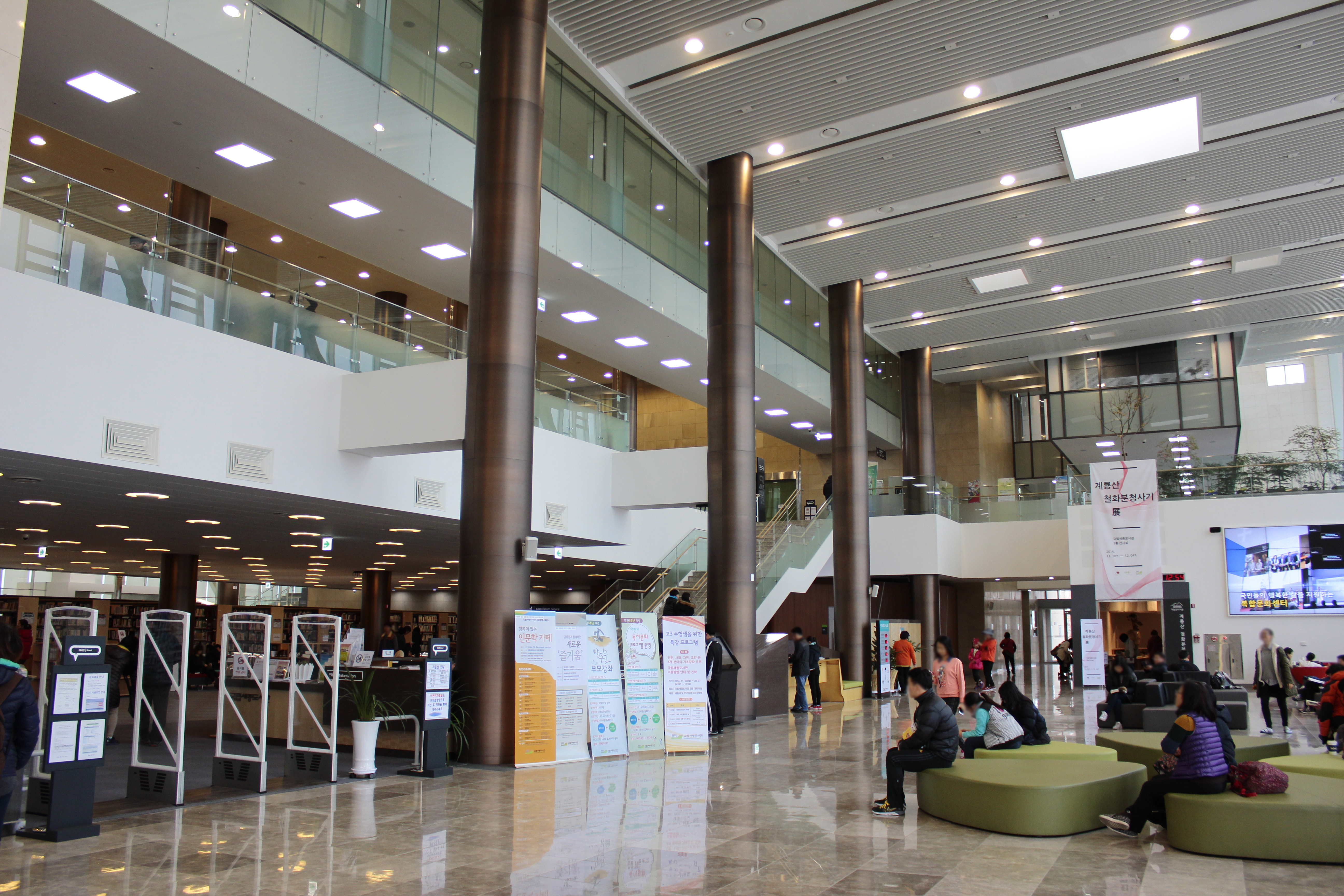 Sejong National Library(Main Hall)